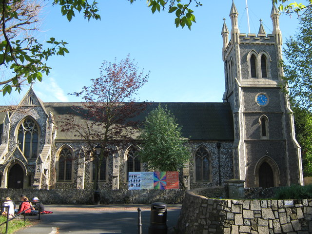 Holy Trinity Parish Church, Trinity Trees, Eastbourne, East Sussex, seen from the north